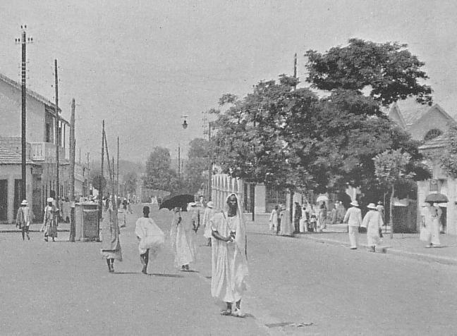 Dakar in 1930s